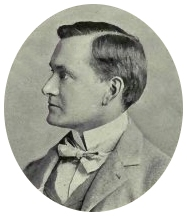 Edmund James Bristol Source: The Canadian Parliament; biographical sketches and photo-engravures of the senators and members of the House of Commons of Canada. Being the tenth Parliament, elected November 3, 1904 Publisher: Montreal Perrault Print. Co Date: 1906 Possible Copyright Status: NOT_IN_COPYRIGHT